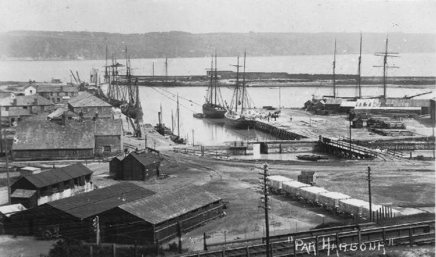 Par harbour, Cornwall, United Kingdom. Looking south from Par Mount with the Long Quay on the left, Short Quay on the right,and the breakwater in the middle distance with Polkerris across Par Bay. The line of wagons in the foreground carry china clay which will be loaded into ships here. The small steam ship is Treffry, the local tug which worked here and at Fowey.